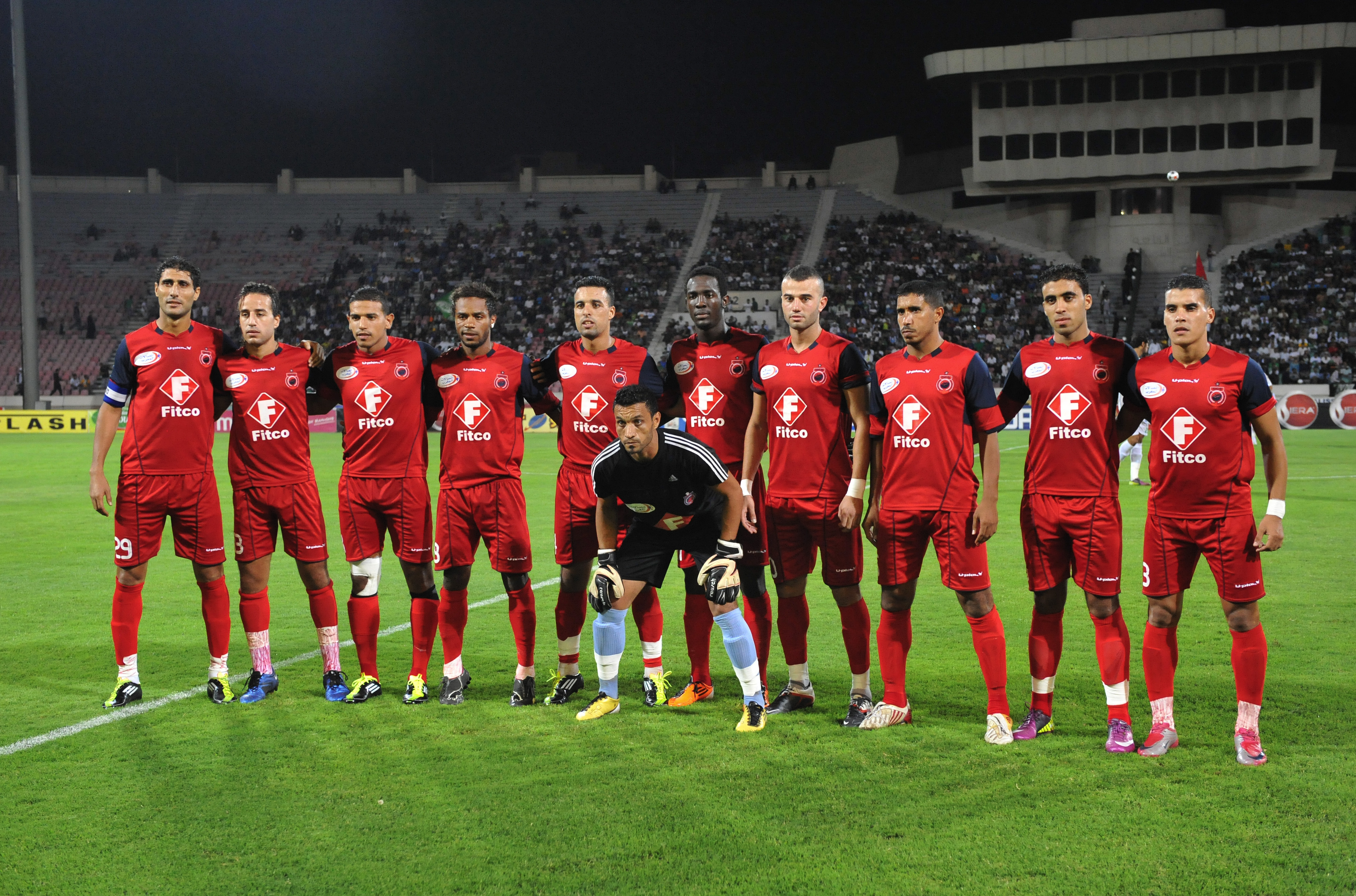 OCS Safi (Olympique Club Safi), 2010/2011 team.